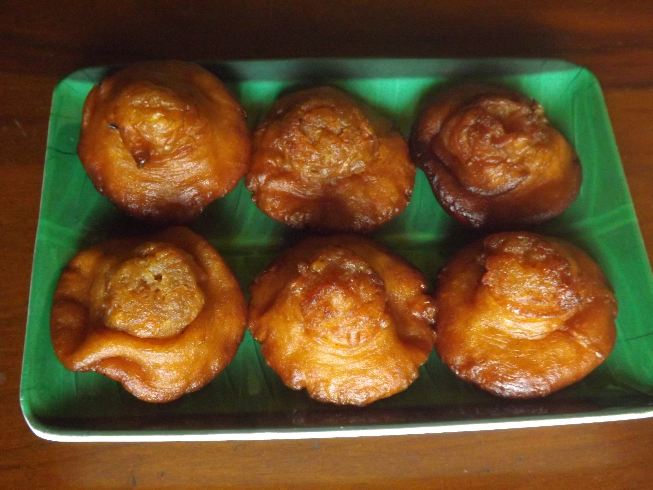 A plate of Konda Kavum, a traditional Sri Lankan dish. It is a deep-fried sweet made with rice flour and treacle. Some experience and skill is required to bring out its distinctive mushroom shape, which has to be done while it is being fried.